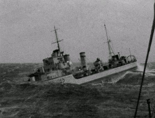 HMS Glowworm in rough seas, as photographed from another ship